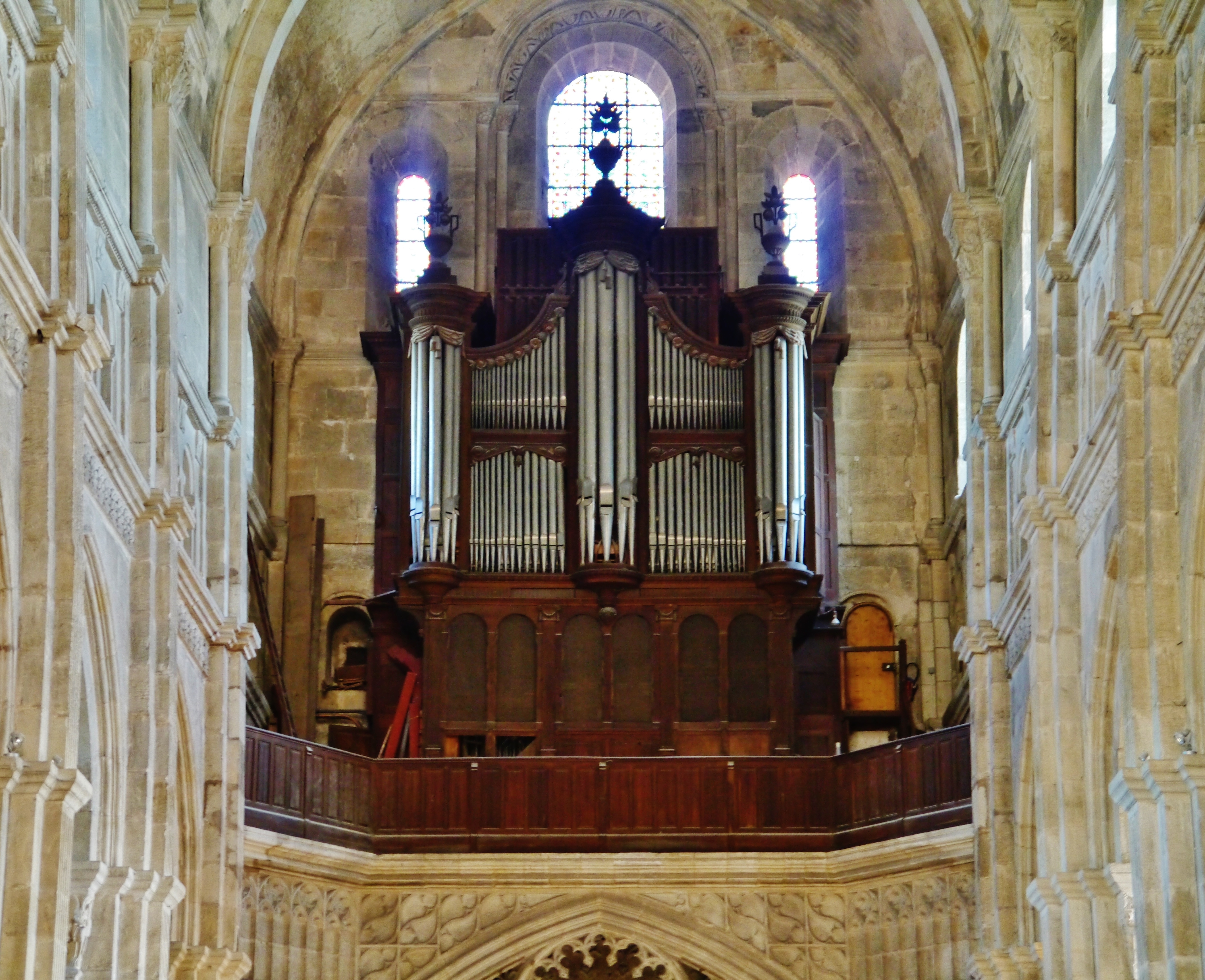 Organ of the Cathedral of St. Lazarus, Autun, Département of Saône-et-Loire, Region of Burgundy (now Burgundy-Frache-Comté), France